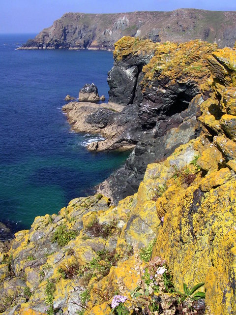 Seaward side of Asparagus Island View towards the Rill from the seaward side of Asparagus Island. There is a lot of this yellow lichen on the exposed rock, out of reach of the sea.